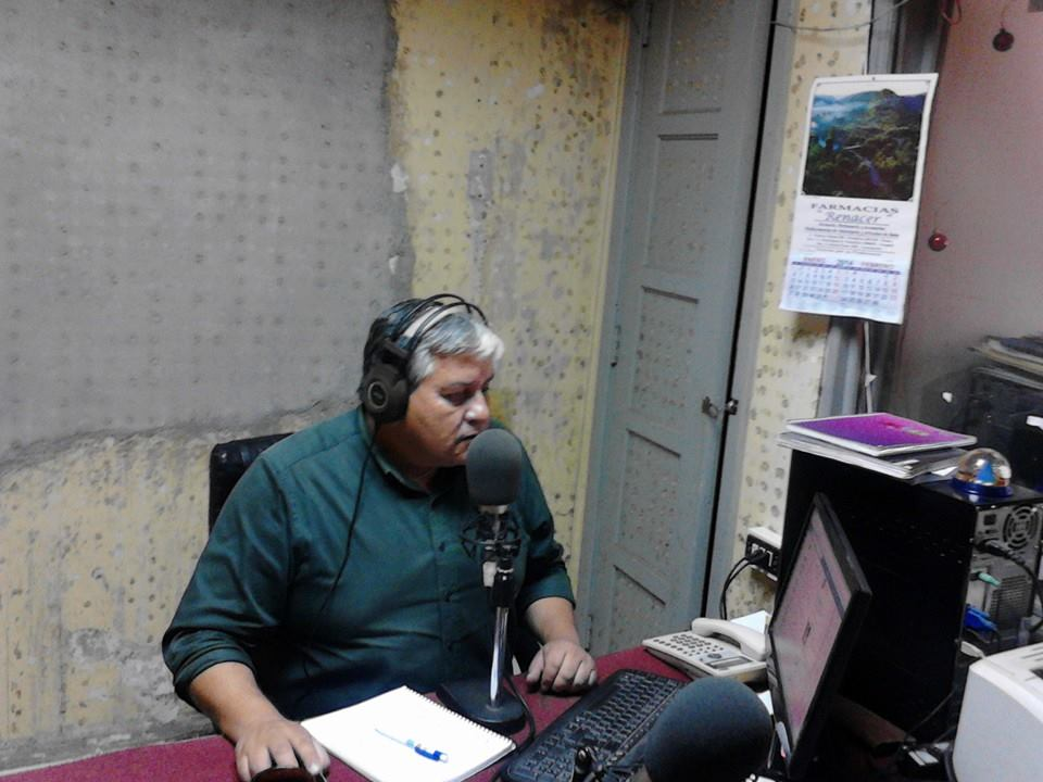 Locutor de la Radio de Penco